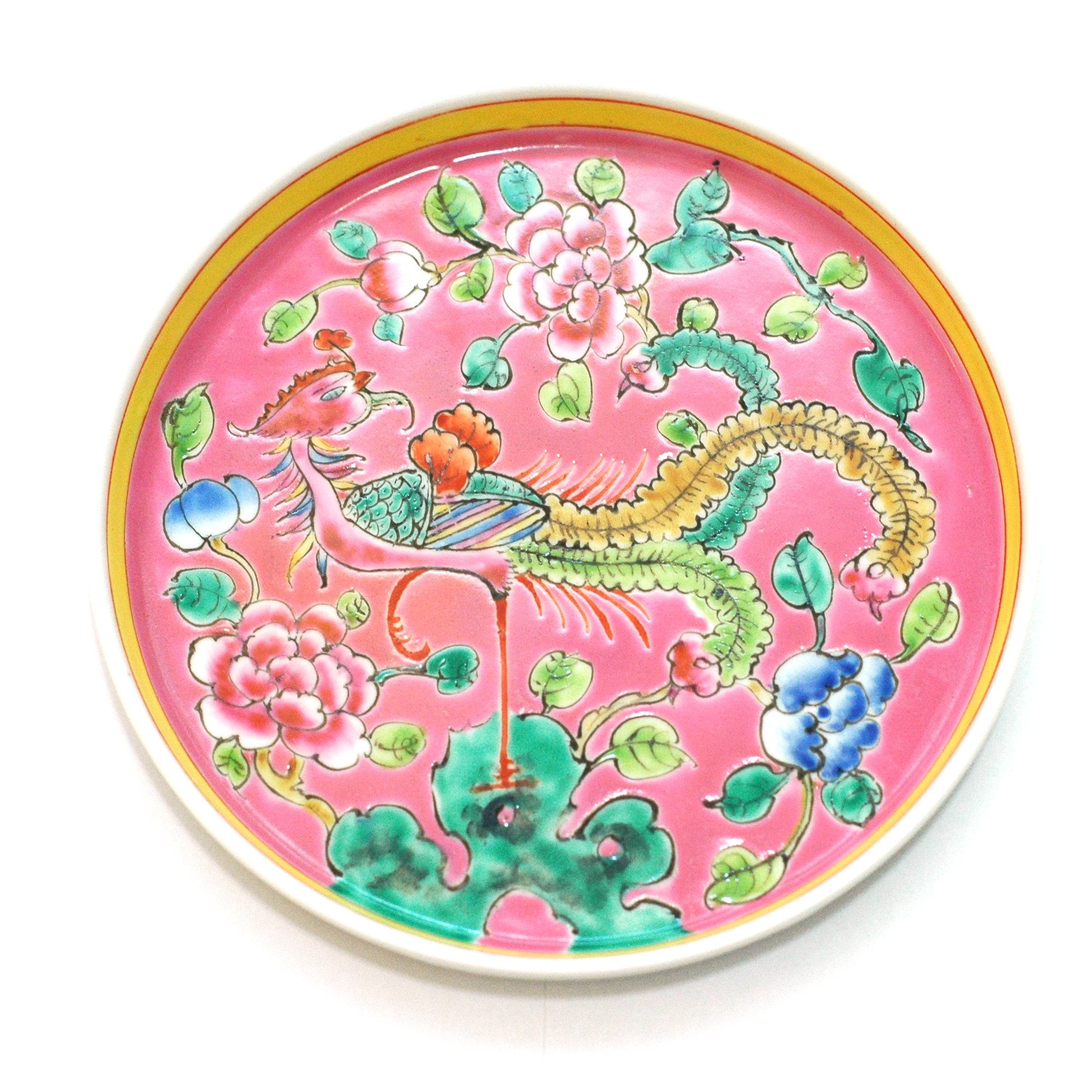 Straits Chinese polychrome enameled porcelain plate with fenghuang (凤凰, 鳳凰, Chinese phoenix) design, meant for tea ceremonies. Modern Chinese-made replica, original design c. 19th century.